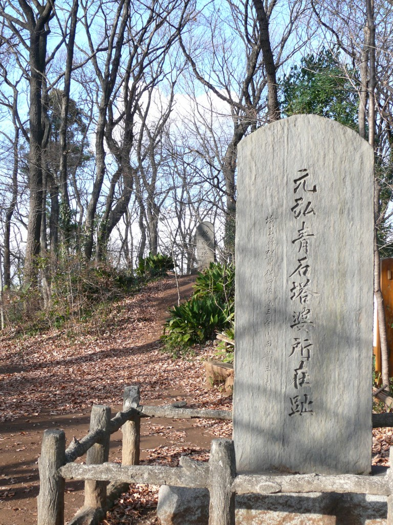 January 2007 by Bryan MacKinnon: Photo of the monument erected on Hachikokuyama at the location that the Samurai General Nitta Yoshidada raised his banner in year 1333. Bryan MacKinnon 11:03, 8 January 2007 (UTC)